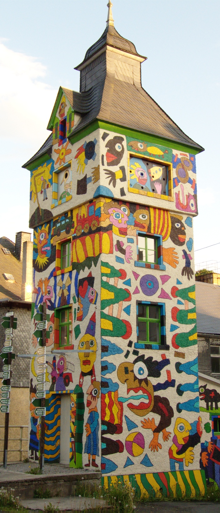 Transformer tower in Wurzbach, Thuringia, Germany